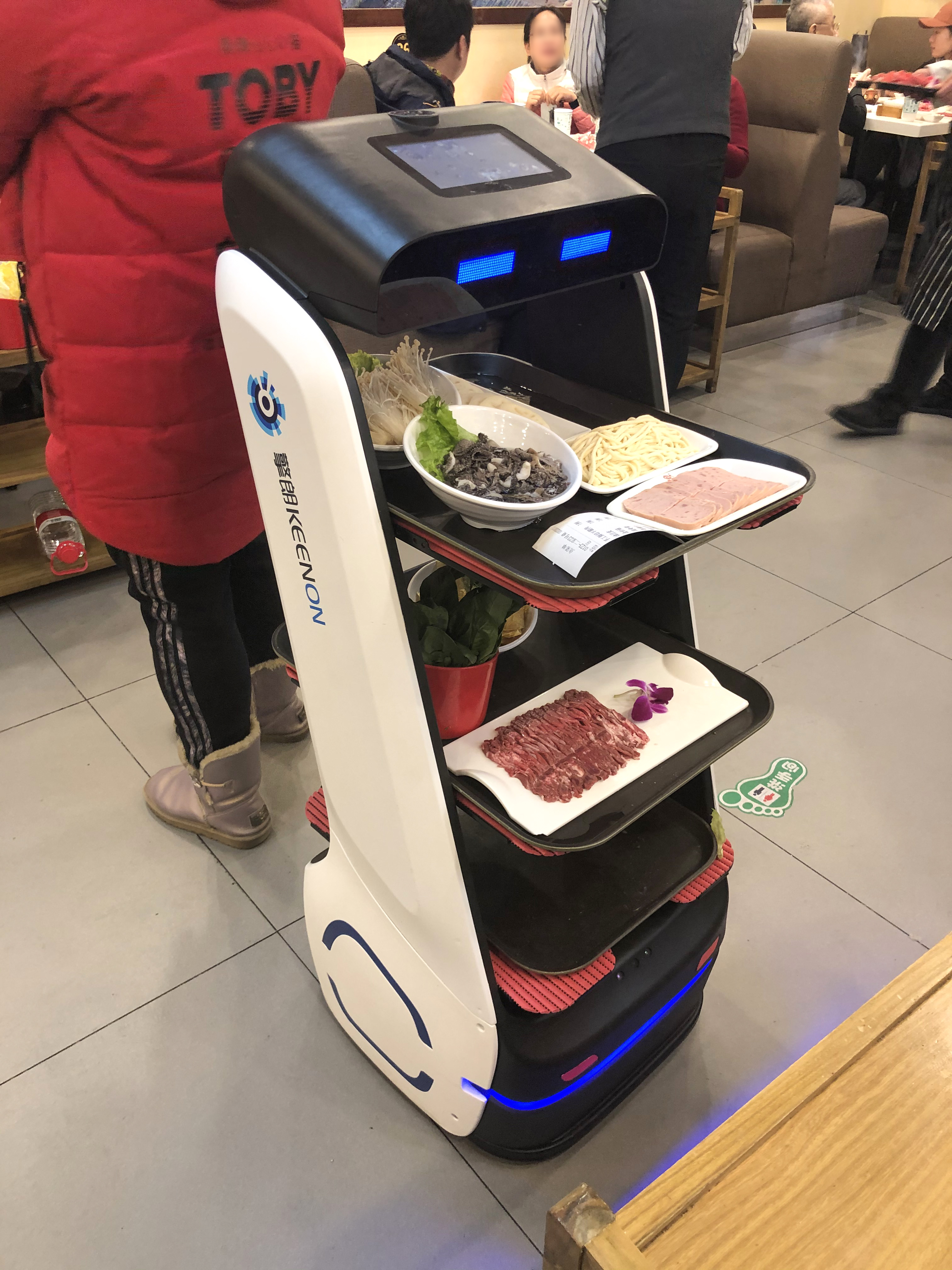 This "waiter bot" is made by Keenon.